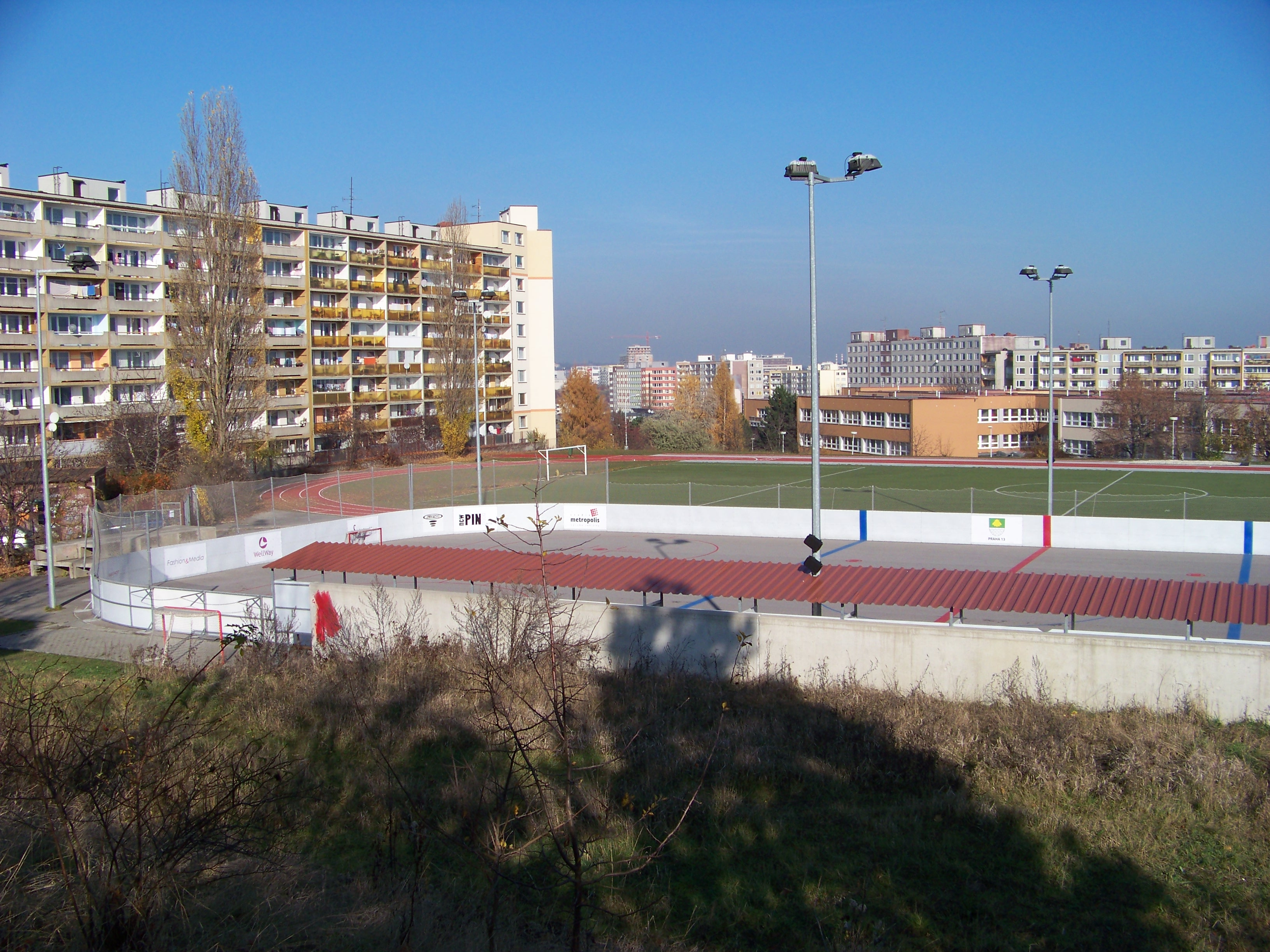 Prague-Stodůlky, the Czech Republic. Lužiny Housing Estate, playing fields. - OpenStreetMap(Info)